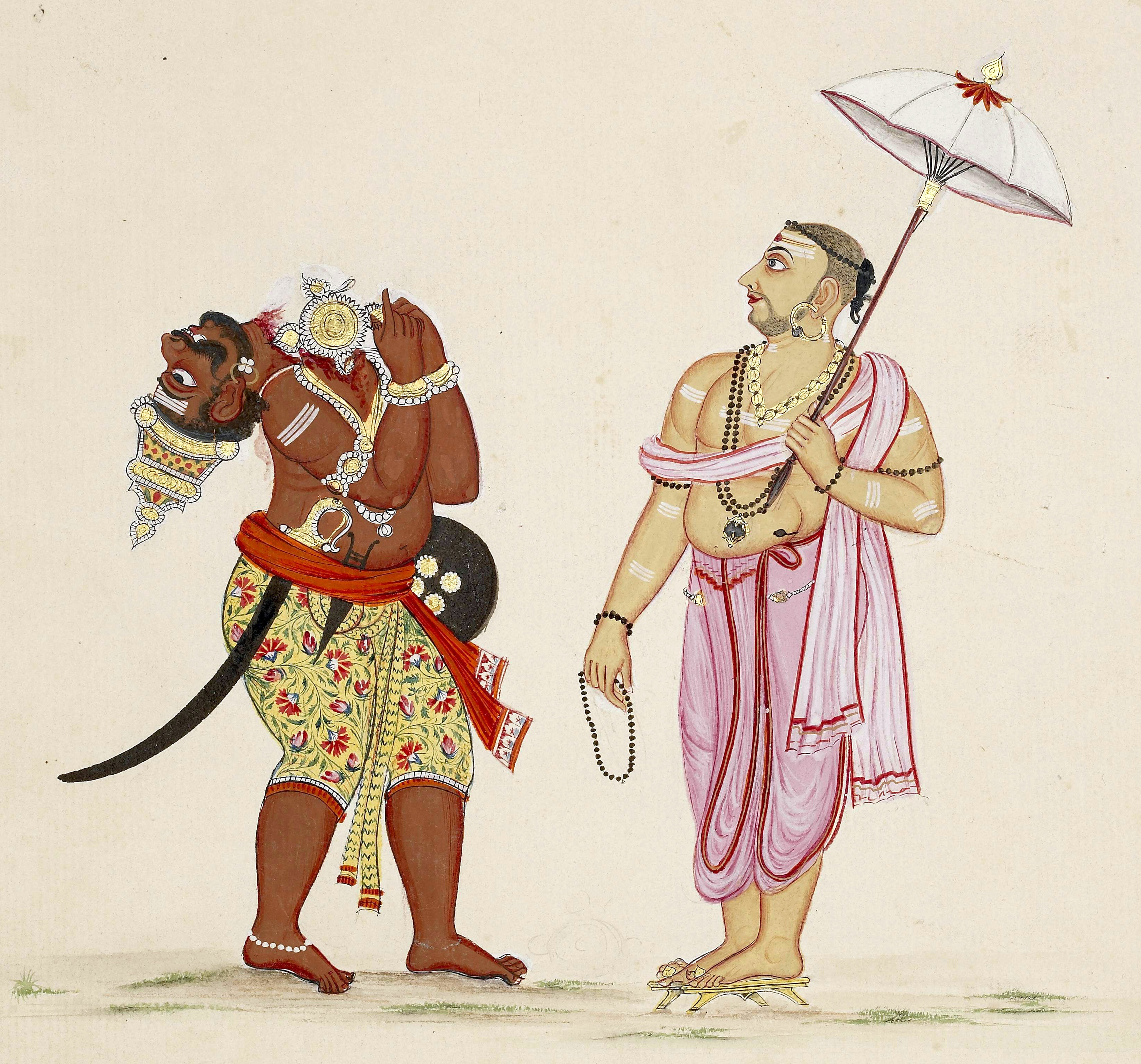 "Painting of Vamana slaying the demon with a cakra. The avatara stands passively to the right and is depicted wearing sandals and holding a rosary in his right hand and a parasol in his left. The demon is shown of dark complexion, wearing a brightly-coloured dhoti and with a sword and a buckler stuck in his belt. Some element of perspective is suggested by the foreground which is sketchily indicated. On laid and water-marked European paper with the date '1816'."